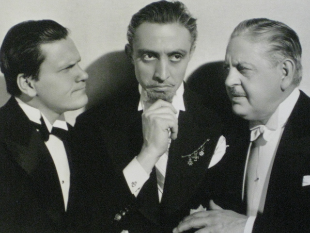 L. to R. : Warren Hymer, Mischa Auer, and Thurston Hall in We Have Our Moments (1937) - publicity still (cropped : see source)